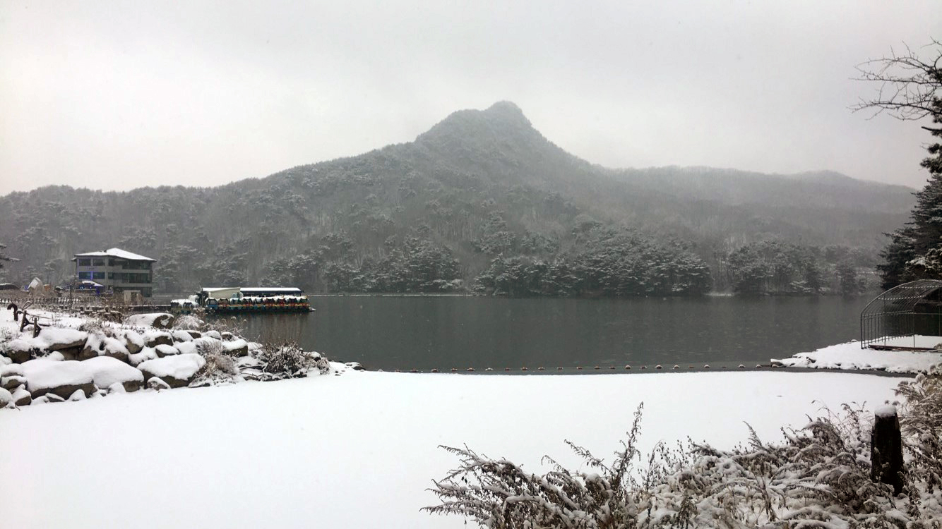 A snowy day at Sanjeong Lake in the city of Pocheon in Gyeonggi Province, South Korea.